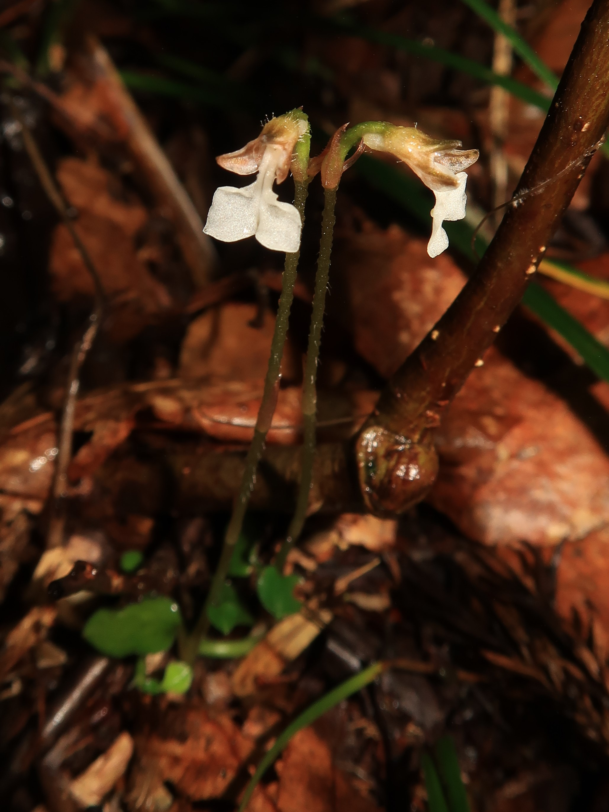 Kuhlhasseltia nakaiana, Nouth area, Ibaraki pref., Japan